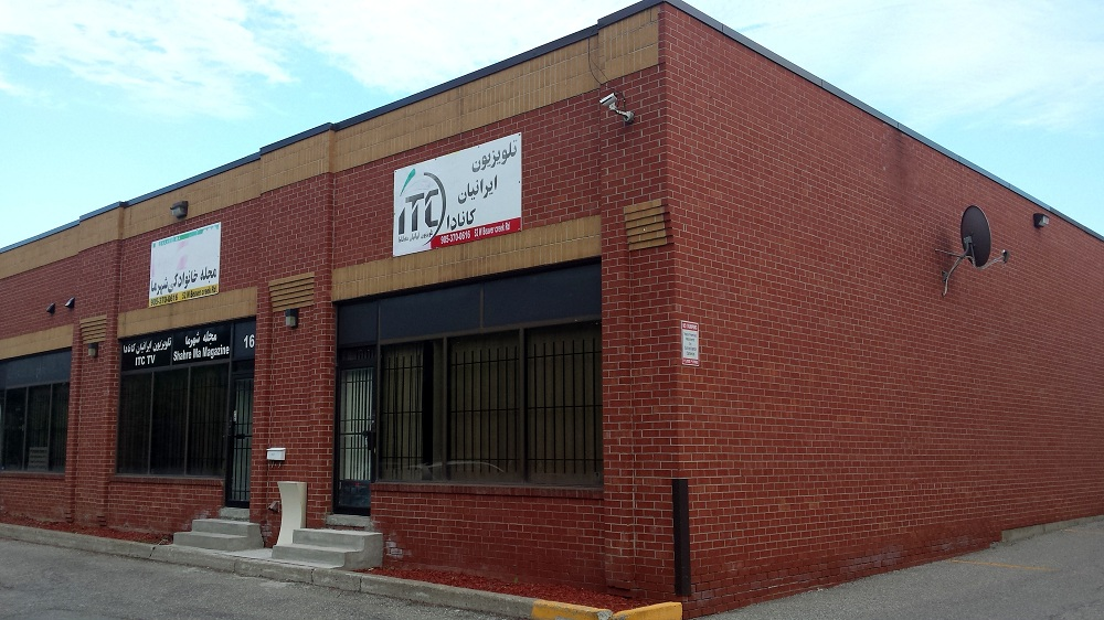 ITC TV - one of Persian-language TV stations in Toronto. June 2014 - Photo: Persian Dutch Network